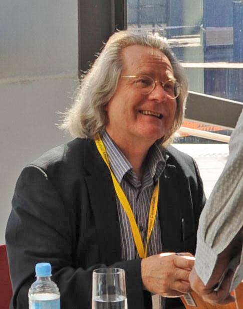 AC Grayling signing books at 2010 Global Atheist Convention